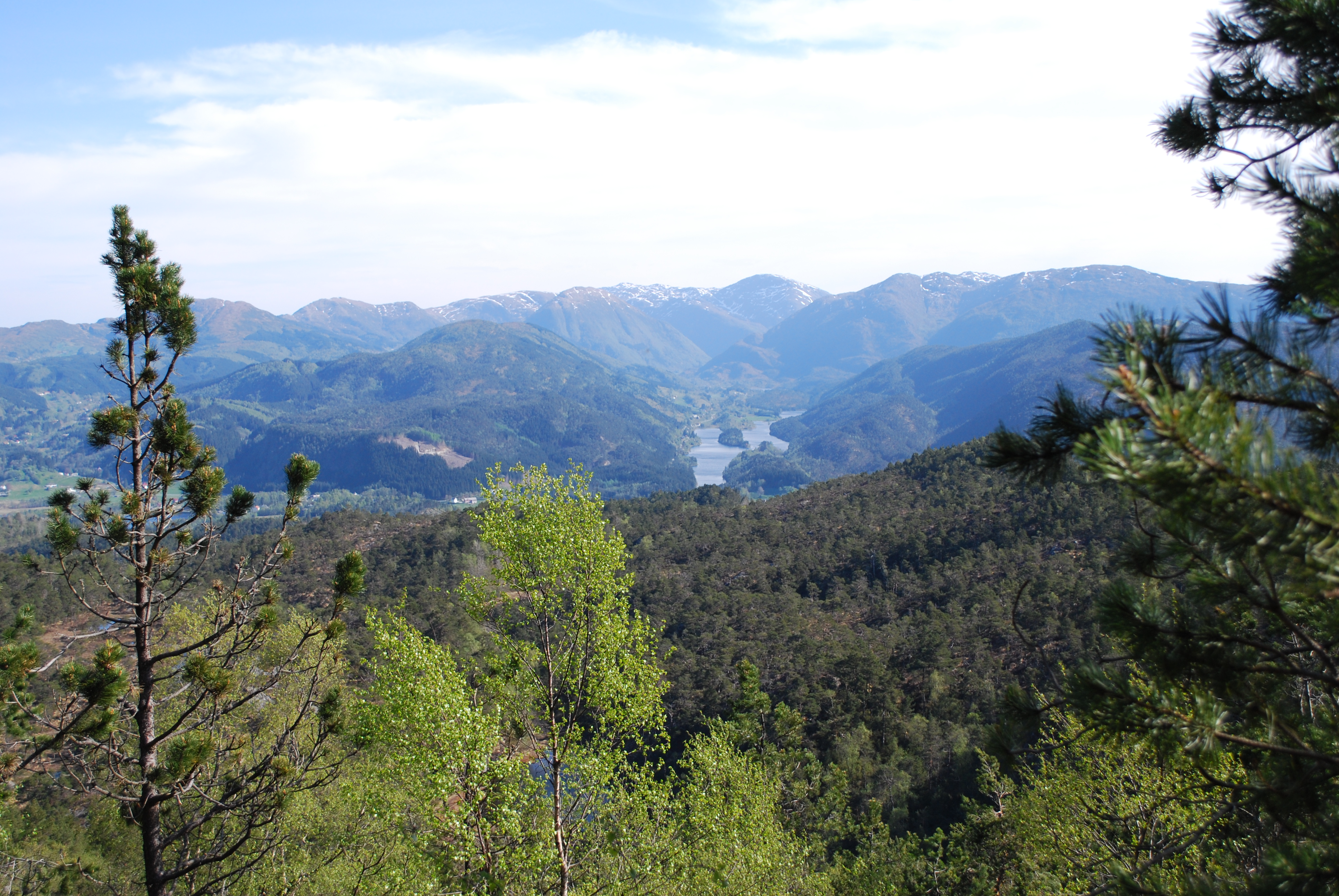 Description=Lysehornet